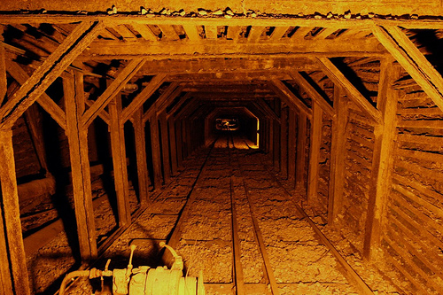 View down the main shaft at Empire Mine, California